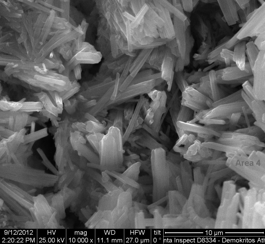 Ettringite crystals (center) developed inside the pores of hydraulic lime mortar-scanning electron microscopy micrograph (secondary electrons mode).Micrograph was captured in a FEI Quanta-Inspect Scanning Electron Microscope coupled with Energy-dispersive X-ray spectroscopy (SEM/EDAX) at the Institute of Nanoscience and Nanotechnology of the National Centre for Scientific Research “Demokritos”